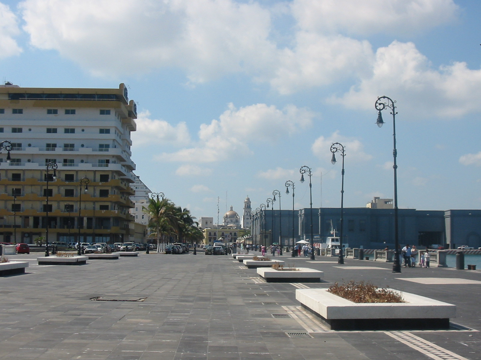 View from end of the Veracruz boardwalk (malecón) of Veracruz. Cathedral is in the background.